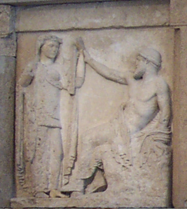 Metope of temple of Hera in Selinonte. Hieros gamos of Hera and Zeus (on rock=Ida?).